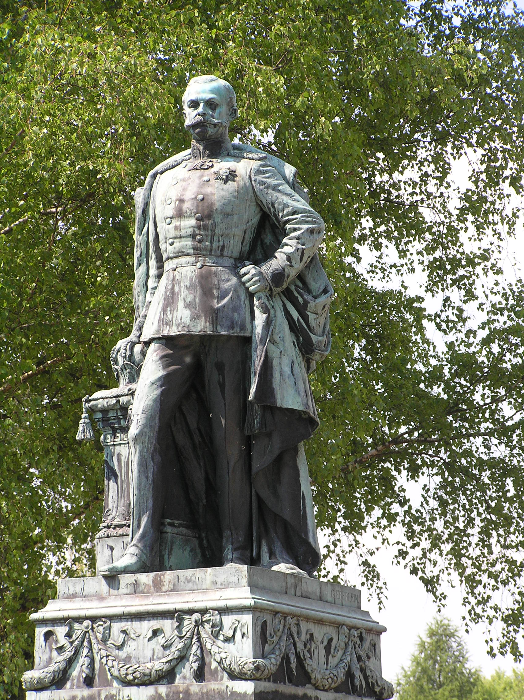 Adolphe, Grand Duke of Luxembourg, statue at Königstein im Taunus